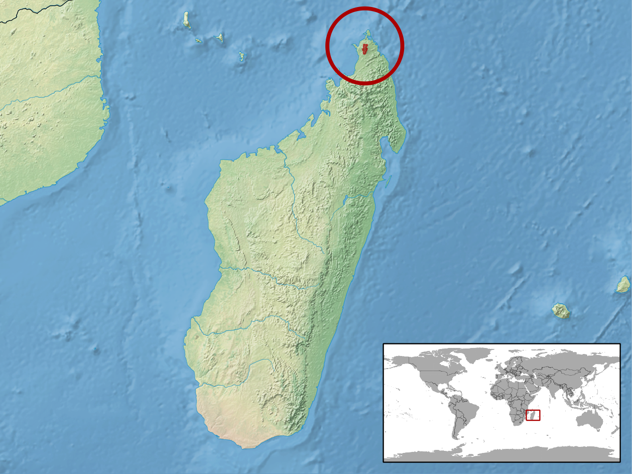 geographic distribution of Brookesia ambreensis (Native: Madagascar)